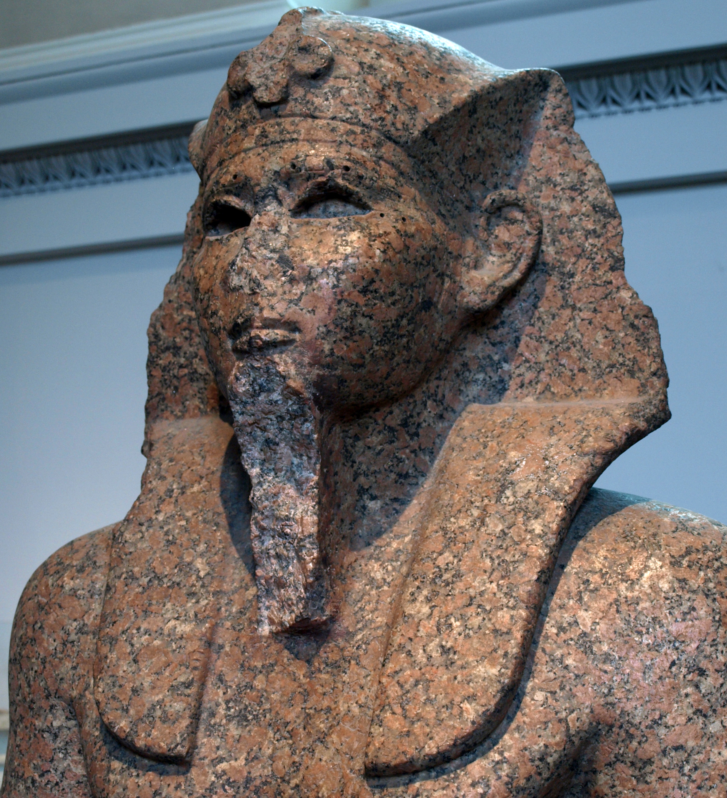 Detail (head and shoulders) of a red granite statue of the 17th dynasty pharoh Sekhemre Wadjkhaw Sobkemsaf I, circa 1630 BC. EA 871 (see note) This pharaoh performed "extensive restoration works at the temple of Month[u] at Madamud." (source: Kim Ryholt, The Political Situation in Egypt during the Second Intermediate Period c.1800-1550 B.C, Museum Tuscalanum Press, p.170)